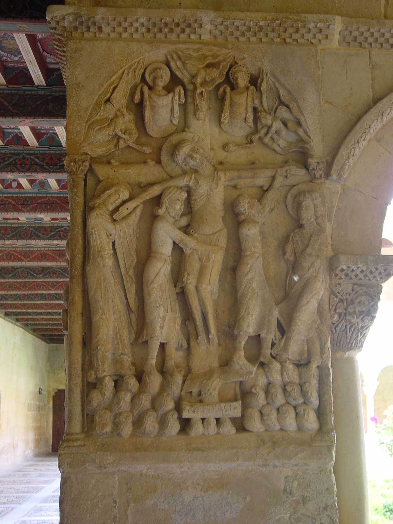 Relief representing the Descent, on a pier of the cloister of the monastery of Santo Domingo de Silos Burgos, Spain.